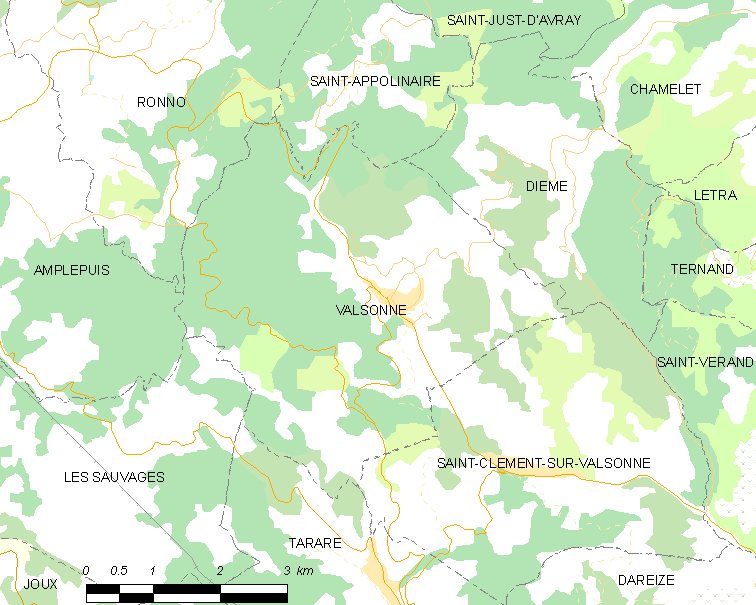 Map of French municipality